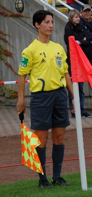 referee, sport, football, women, Germany